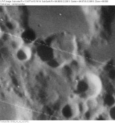 LO-IV-184H Morley is the lower right of center, below 16-km Hargreaves.